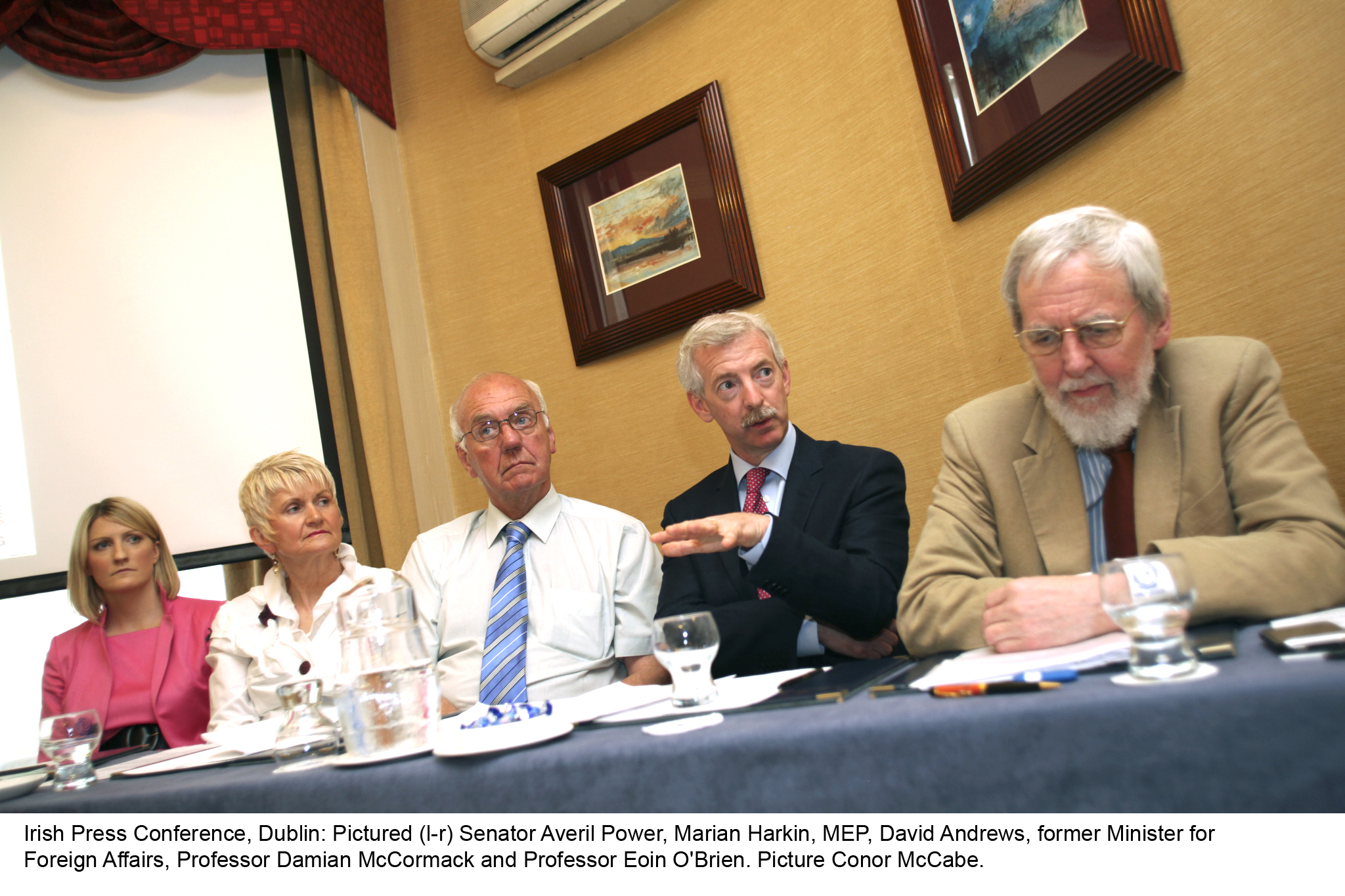 Irish Press Conference, Dublin: Pictured (l-r) Senator Averil Power, Marian Harkin, MEP, David Andrews, former Minister for Foreign Affairs, Professor Damian McCormack and Professor Eoin O'Brien